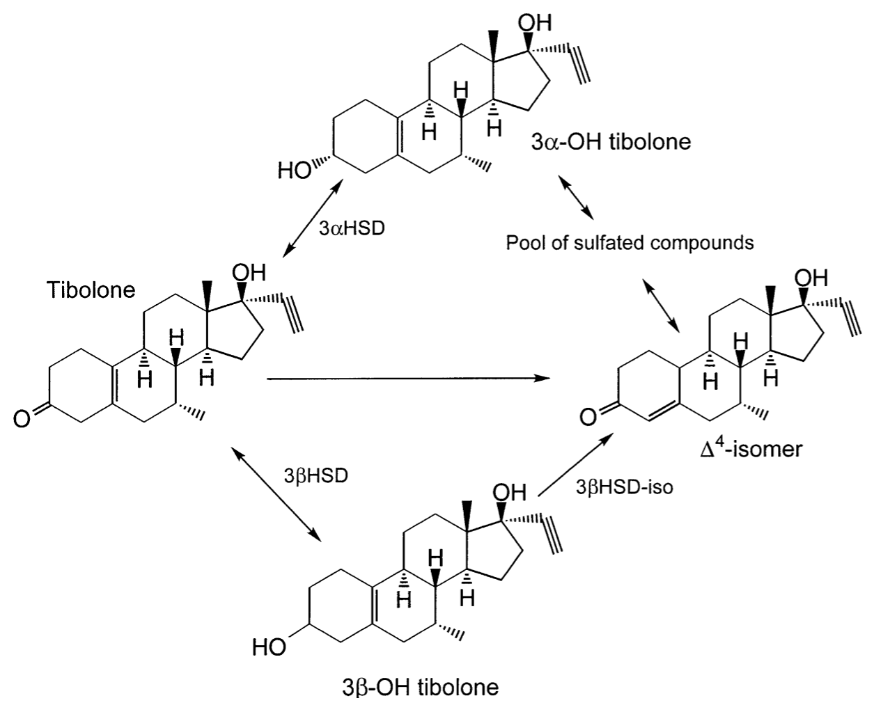 Tibolone metabolism in humans.